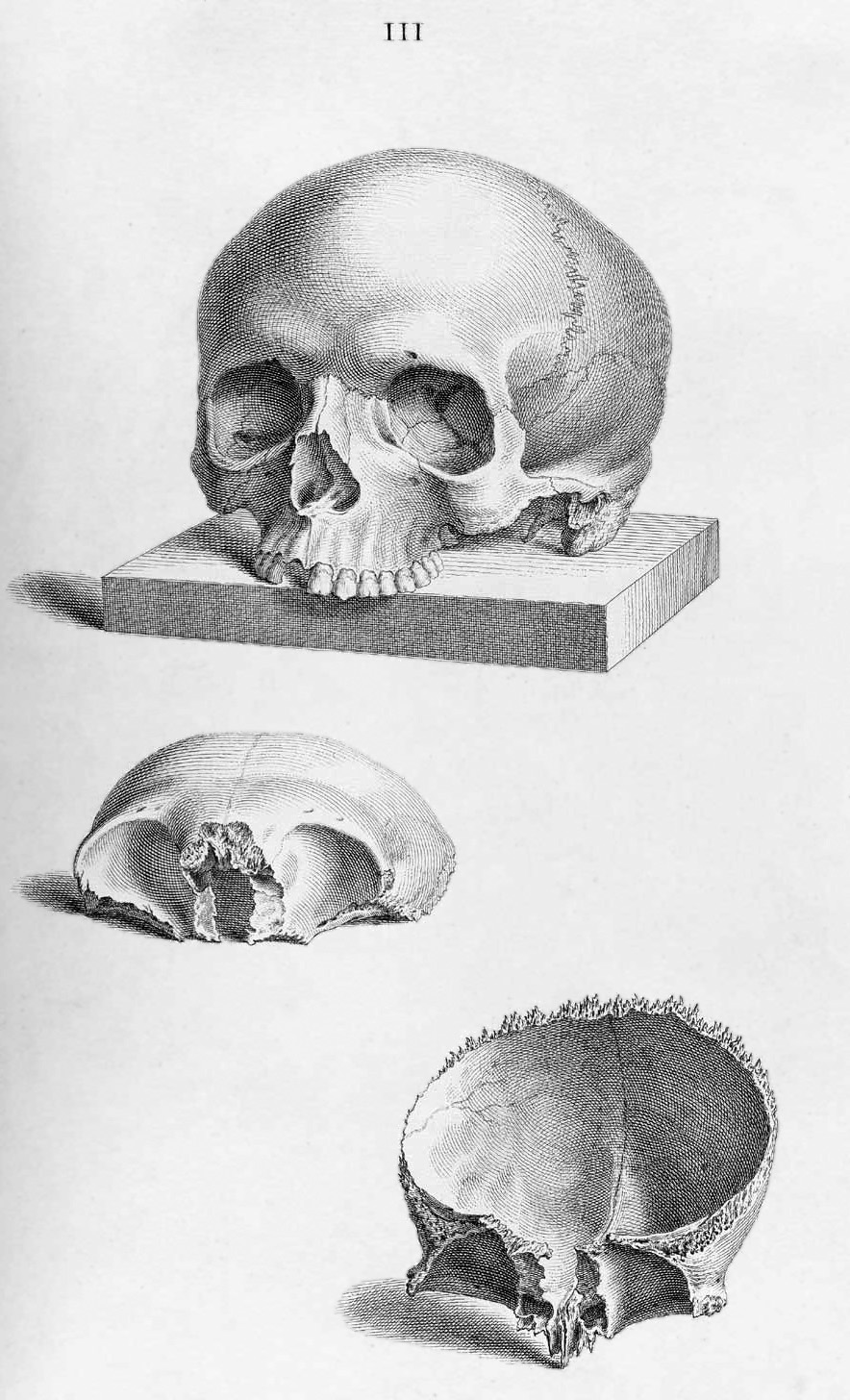 William Cheselden: Osteographia, or The anatomy of the bones. Uploader=Kuebi 17:55, 2 April 2007 (UTC)